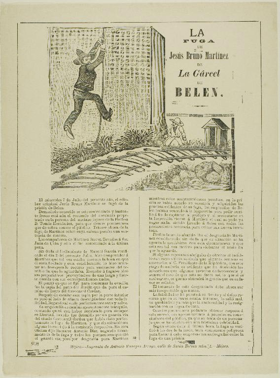 News Print etching of Jesus Bruno Martinez who escaped from Belem/Belen Prison